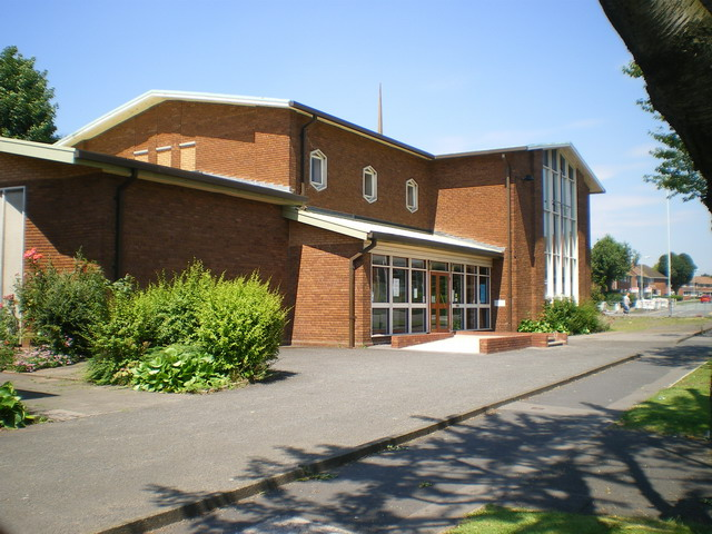 The Parish Church of St Matthew Right on the corner of the main A454 Willenhall Road, and East Park Way.